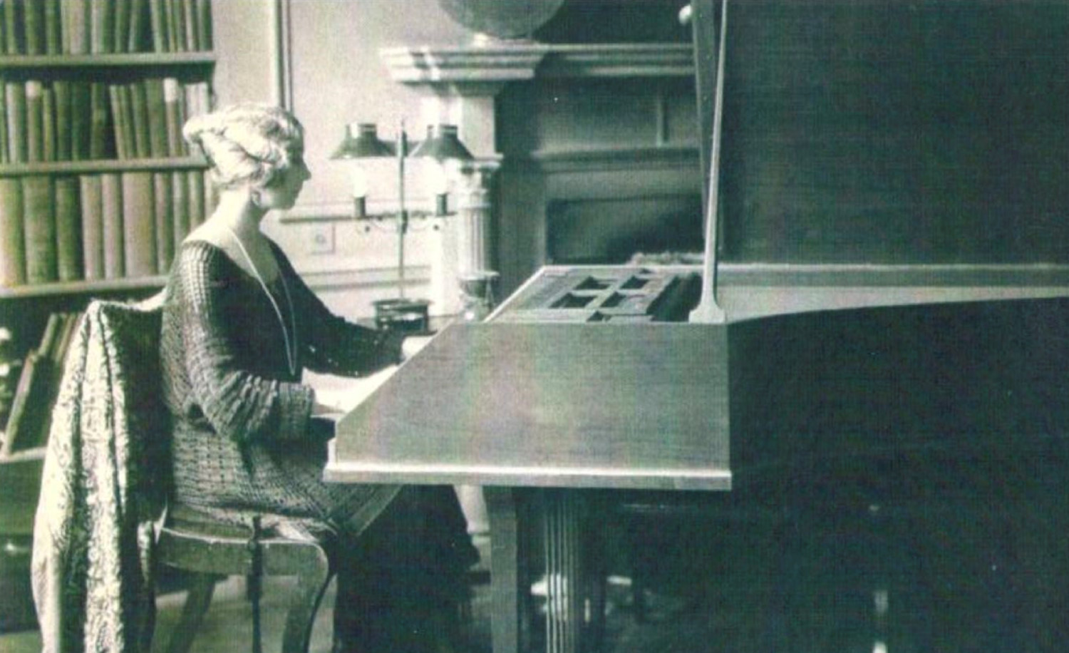 Violet Gordon Woodhouse who lived at Southover Grange circa 1900